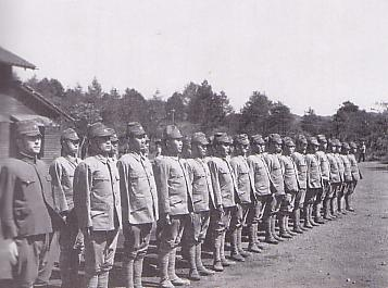 Imperial Police Guard